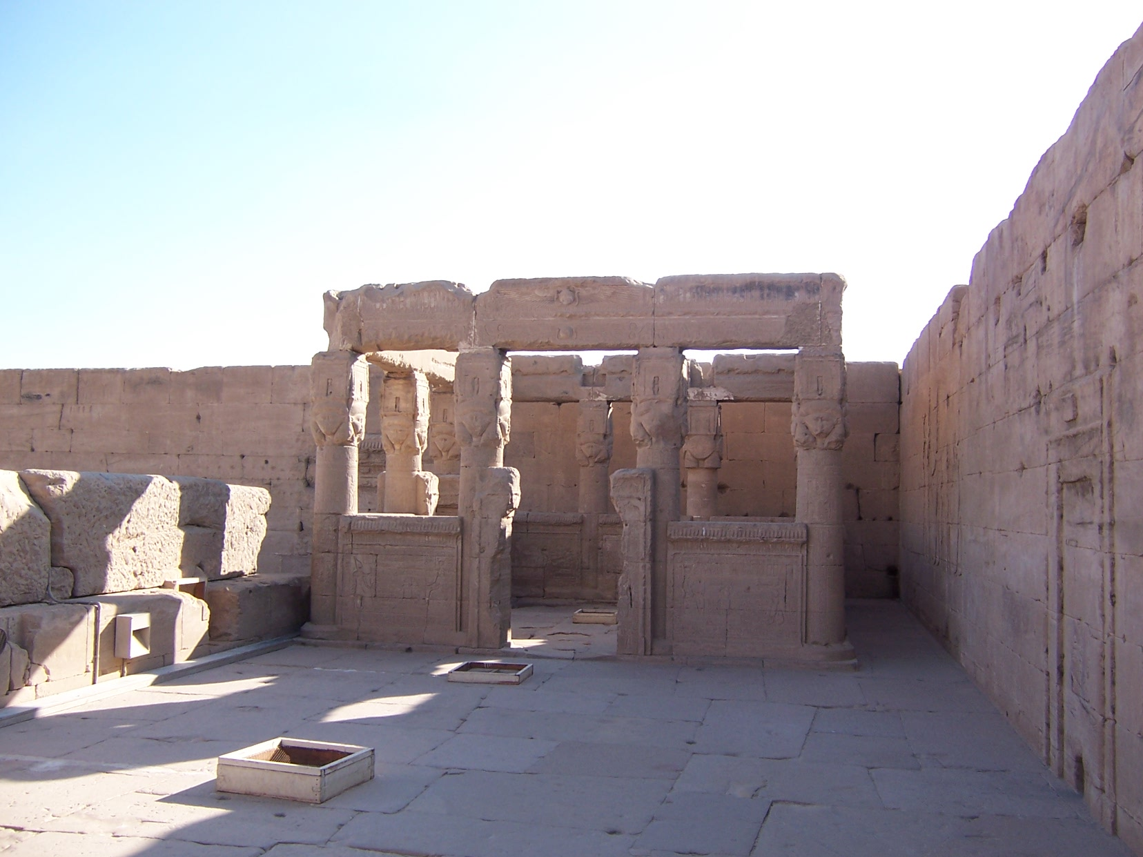 Dendera Hathor Temple Complex location: near Qina, Egypt